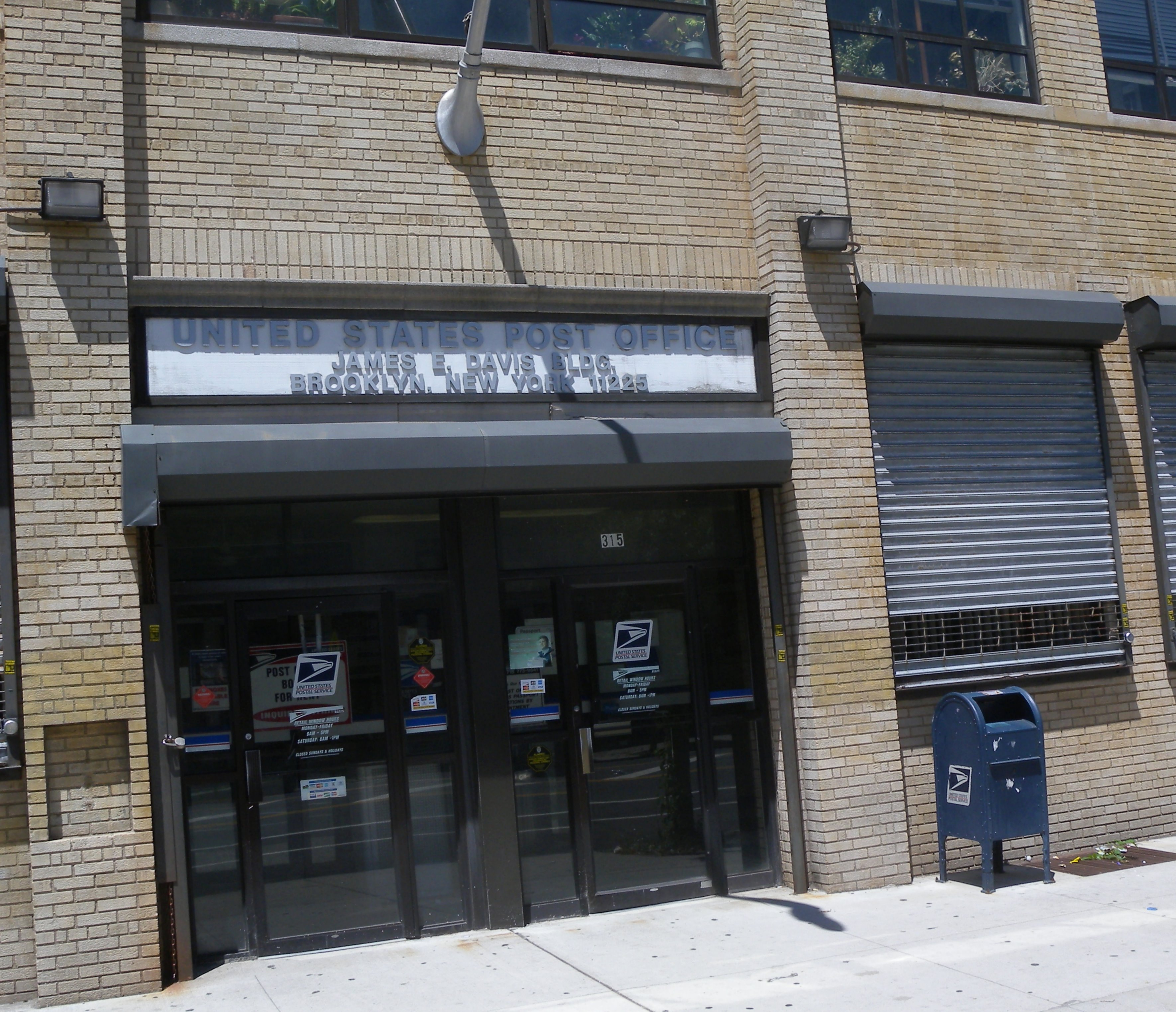 Looking northeast from Empire Boulevard at James E. Davis (councilman) Post Office on a sunny early afternoon.